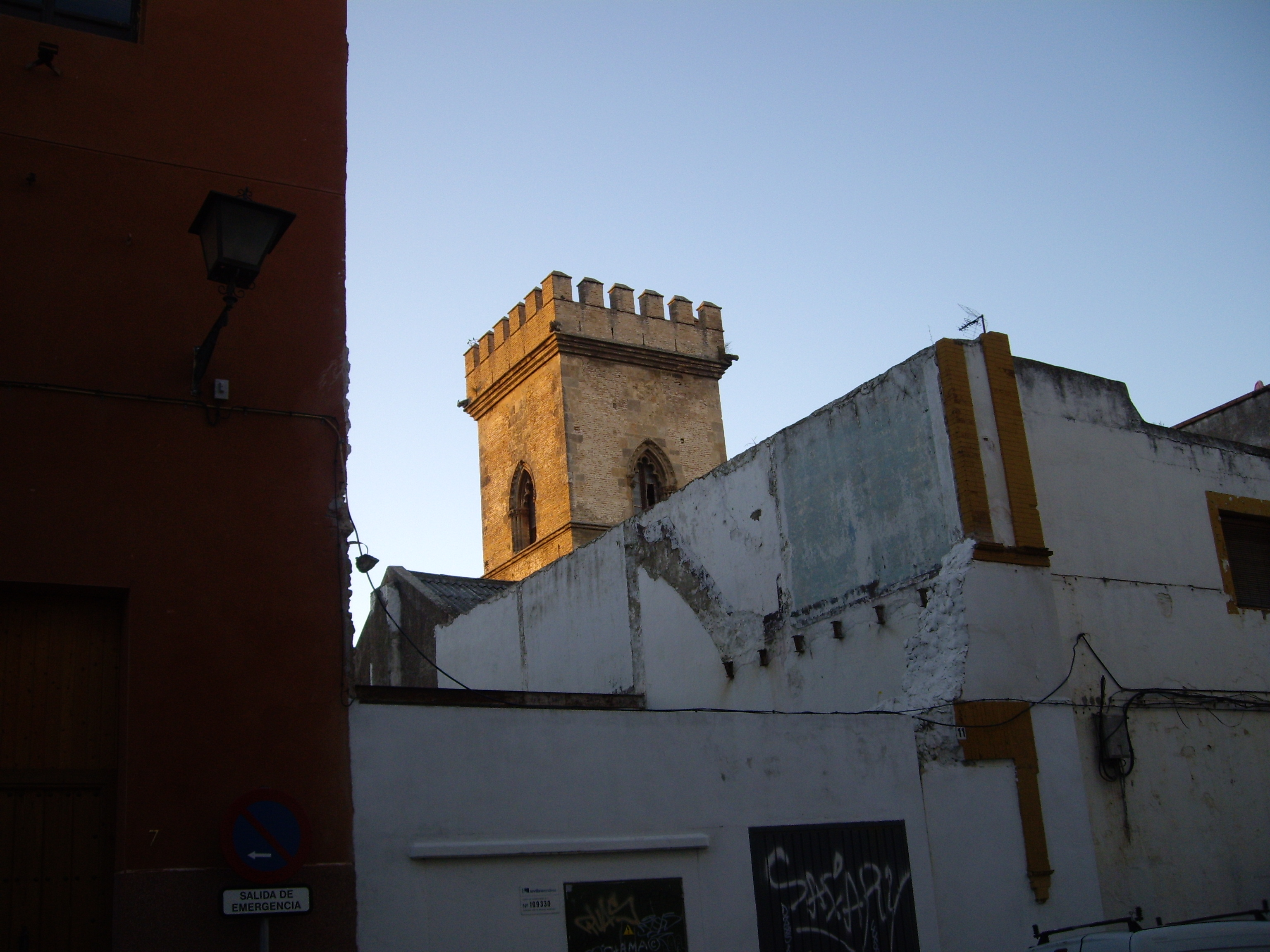 Torre de Don Fadrique de Sevilla Torre medieval construida en 1252. Fotografía desde la calle Baños.